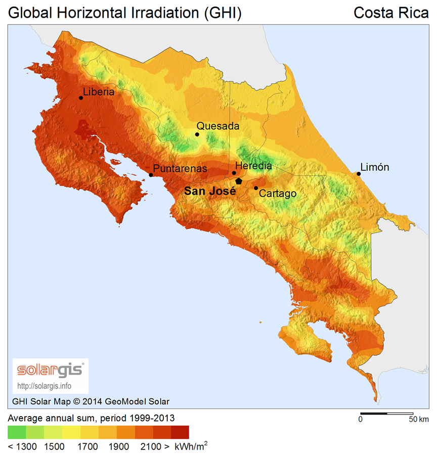 Solar Radiation Map: Global Horizontal Irradiation Map of Costa Rica, SolarGIS. English version.